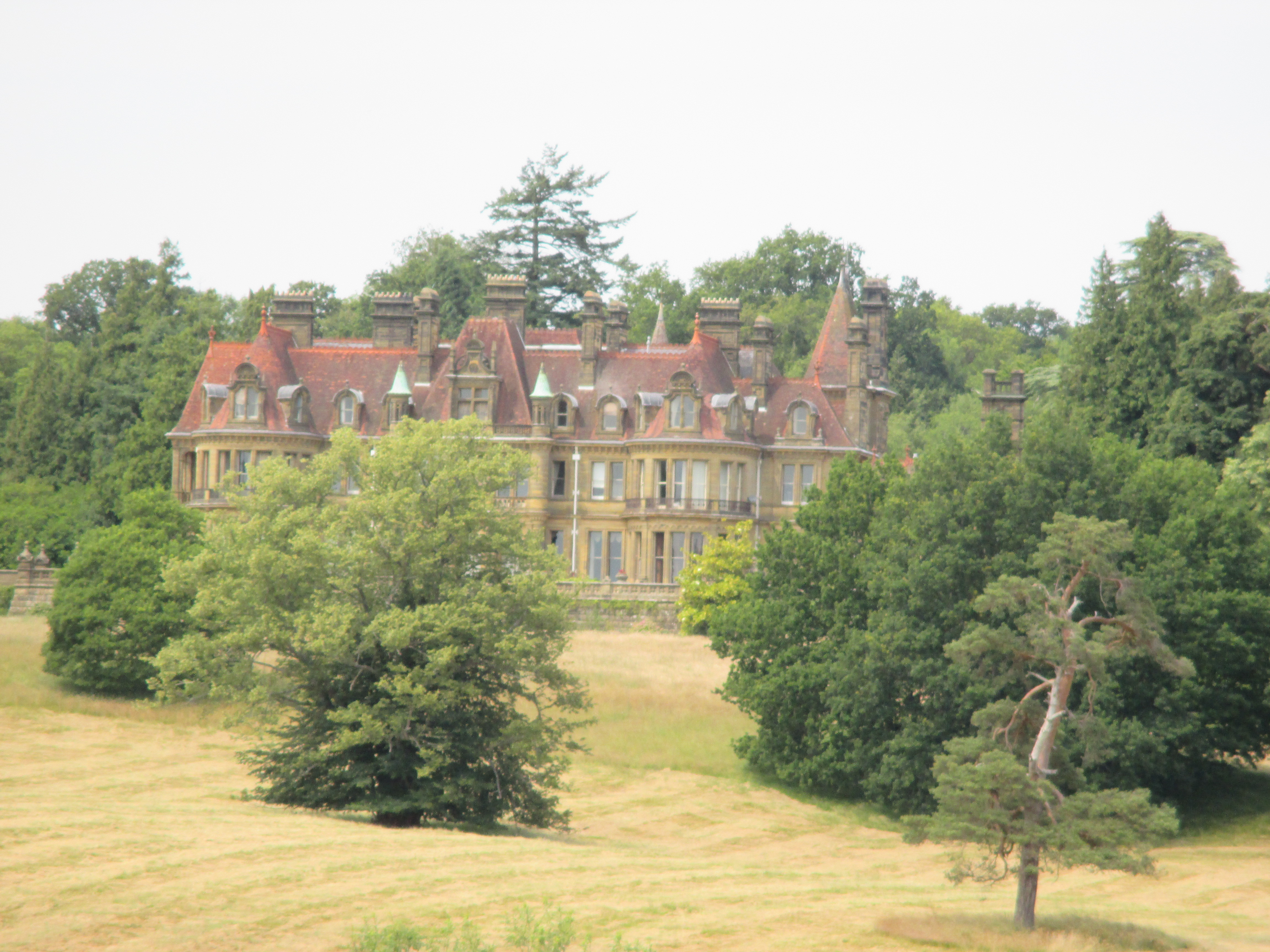 Wykehurst Park, Bolney, West Sussex, photographed from 500 yards to the south.